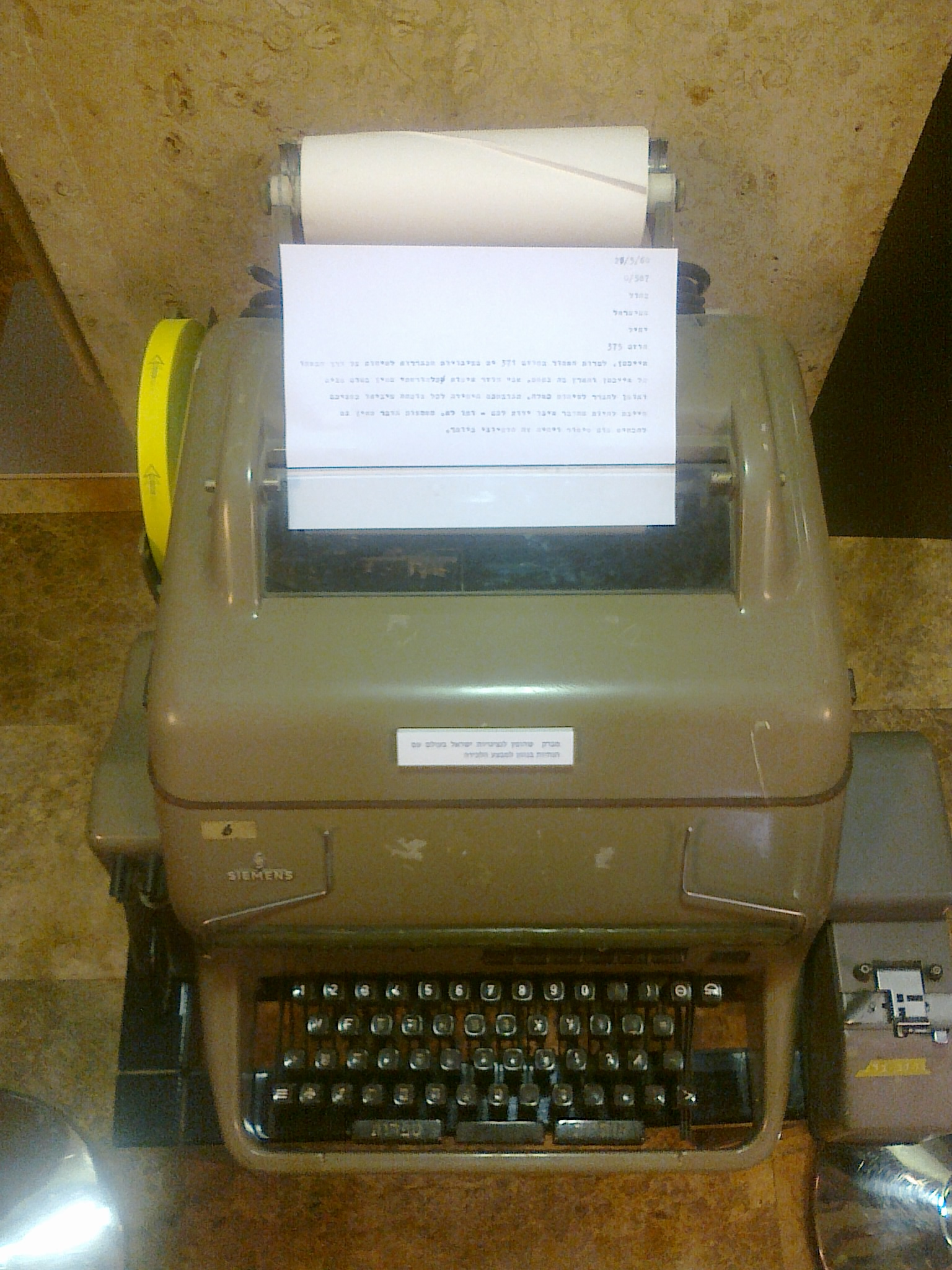 Siemens teleprinter used to send telegrams between Israel and embassies overseas